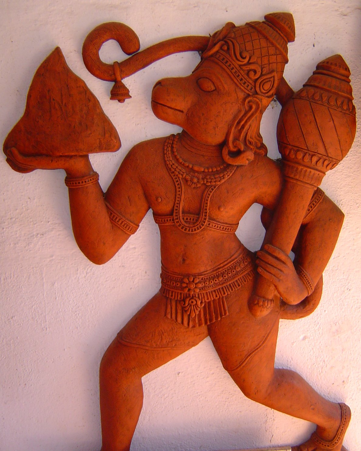 Sculpture of Hanuman in Terra cotta.